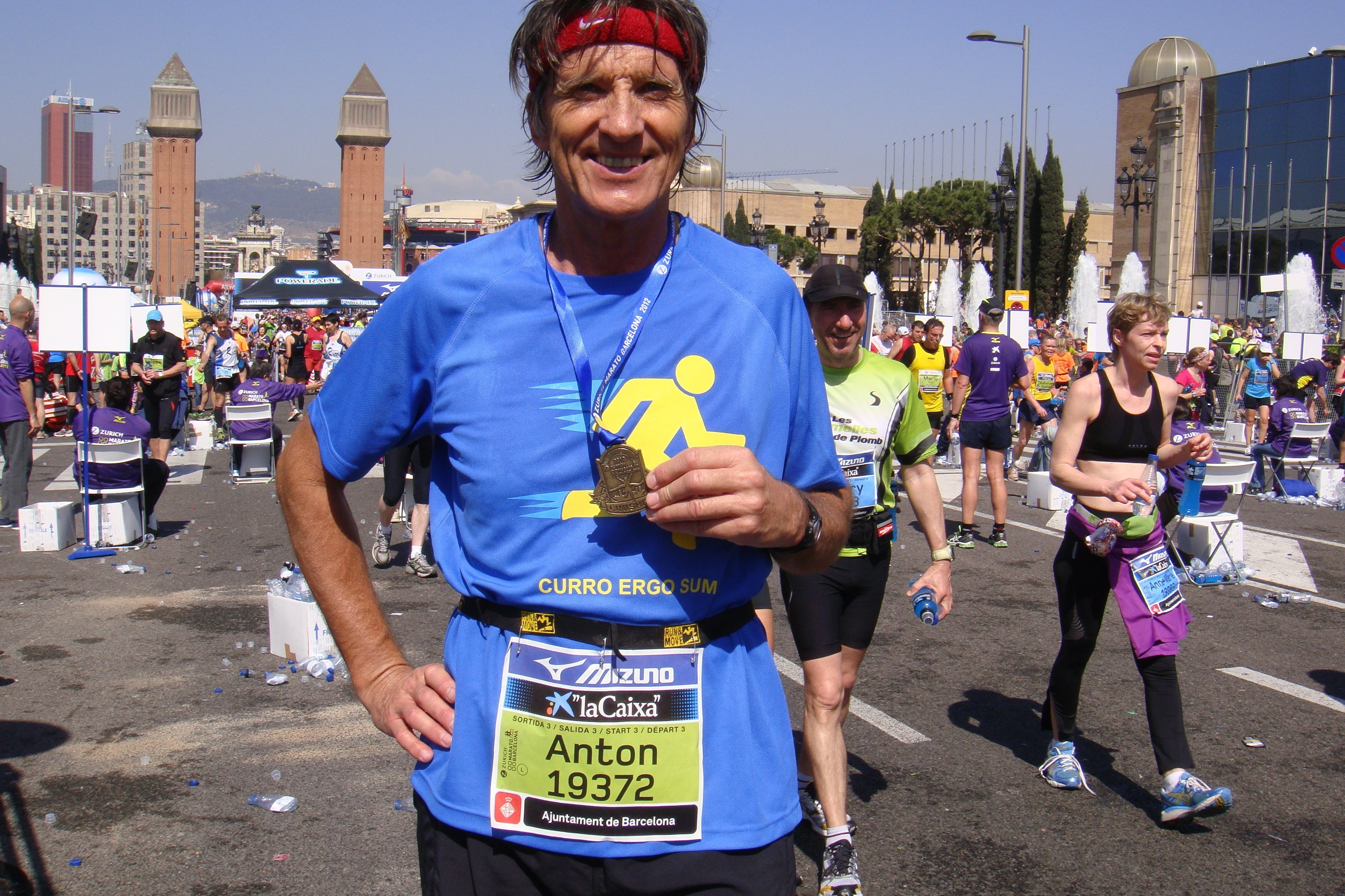 Dr. Anton Reiter, a marathon runner and collector from Vienna after his 101st race over 42,195 km in Barcelona